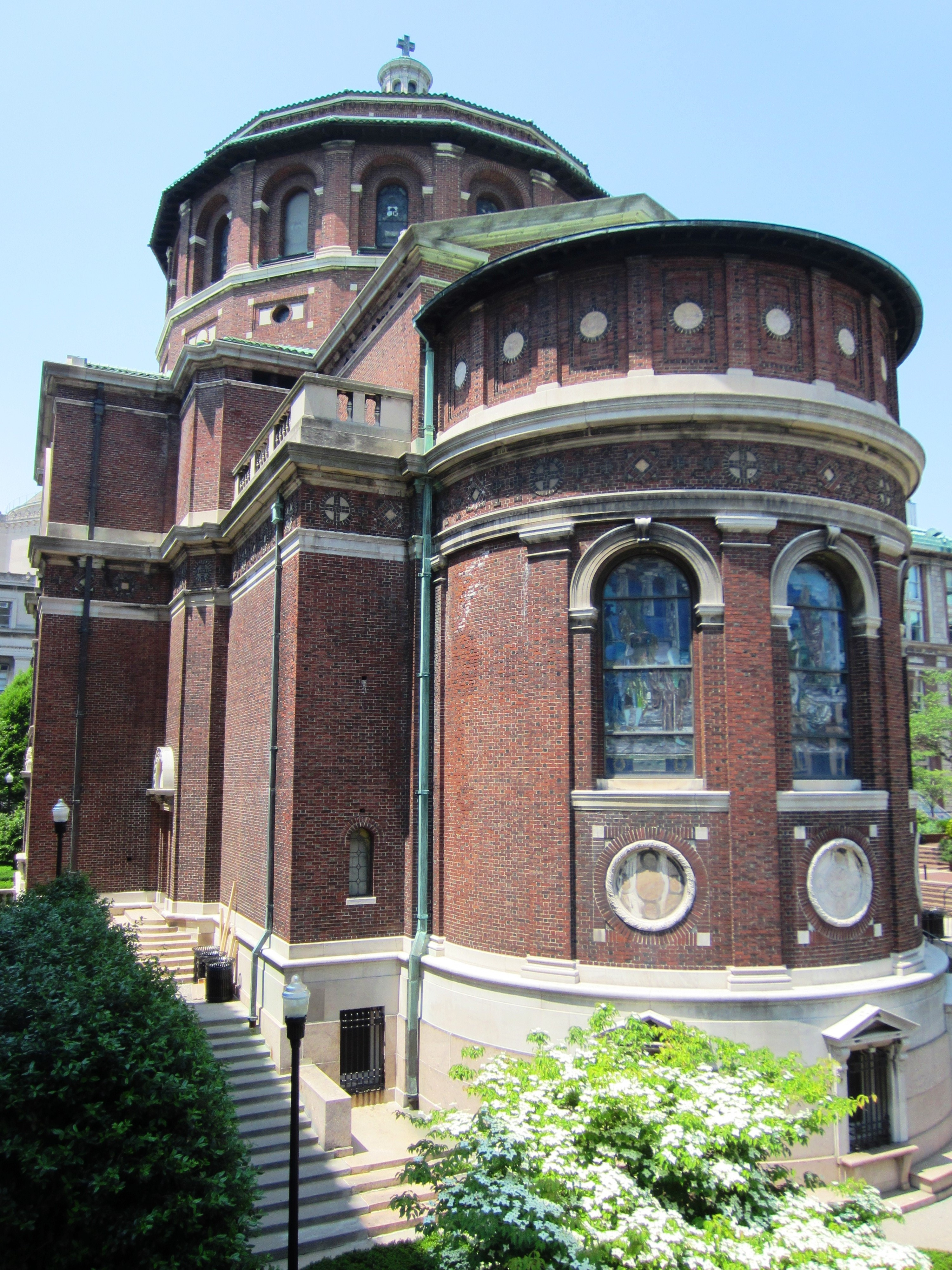 Columbia University, New York City (June 2014)